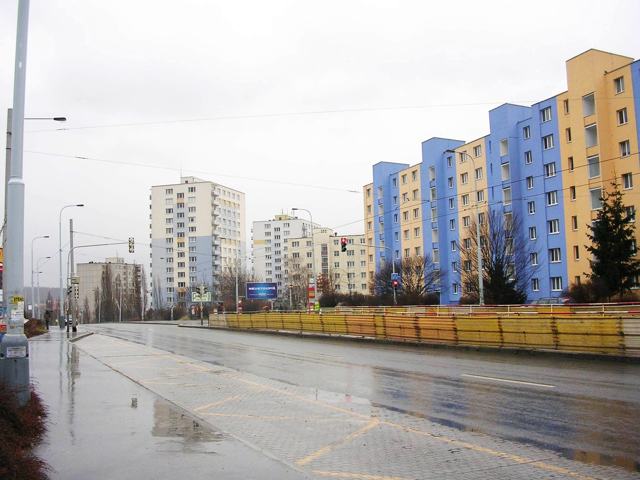 Záběhlice-Zahradní Město, Prague, the Czech Republic.